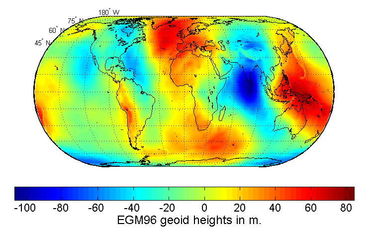 F. G. Lemoine, S. C. Kenyon, J. K. Factor, R.G. Trimmer, N. K. Pavlis, D. S. Chinn, C. M. Cox, S. M. Klosko, S. B. Luthcke, M. H. Torrence, Y. M. Wang, R. G. Williamson, E. C. Pavlis, R. H. Rapp and T. R. Olson, NASA Goddard Space Flight Center, Greenbelt, Maryland, 20771 USA, July 1998.